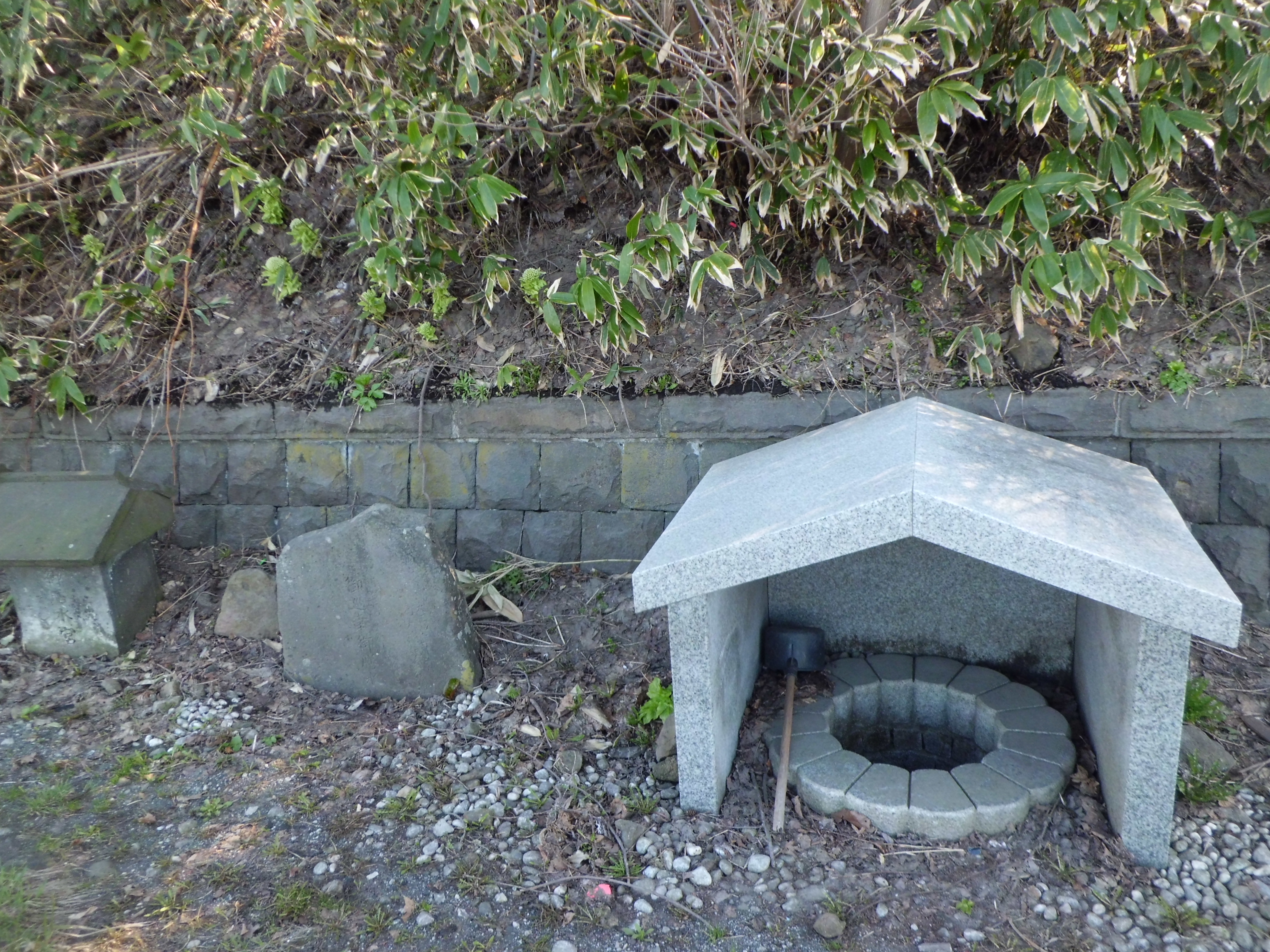 Gozensui-gu, the water tasted by Emperor Meiji in August 1881.